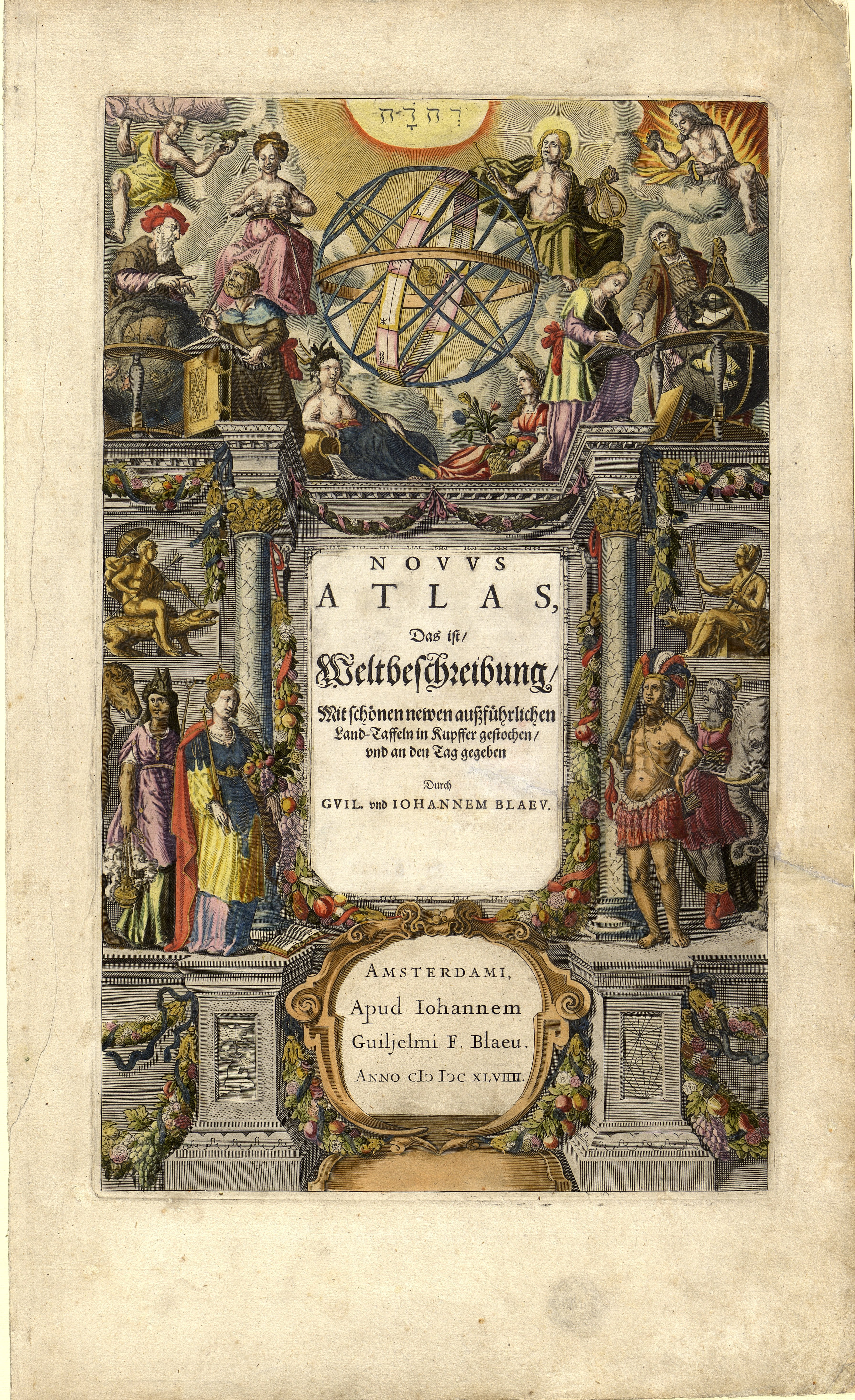 Title page from Novus Atlas, Das ist Weltbeschreibung.